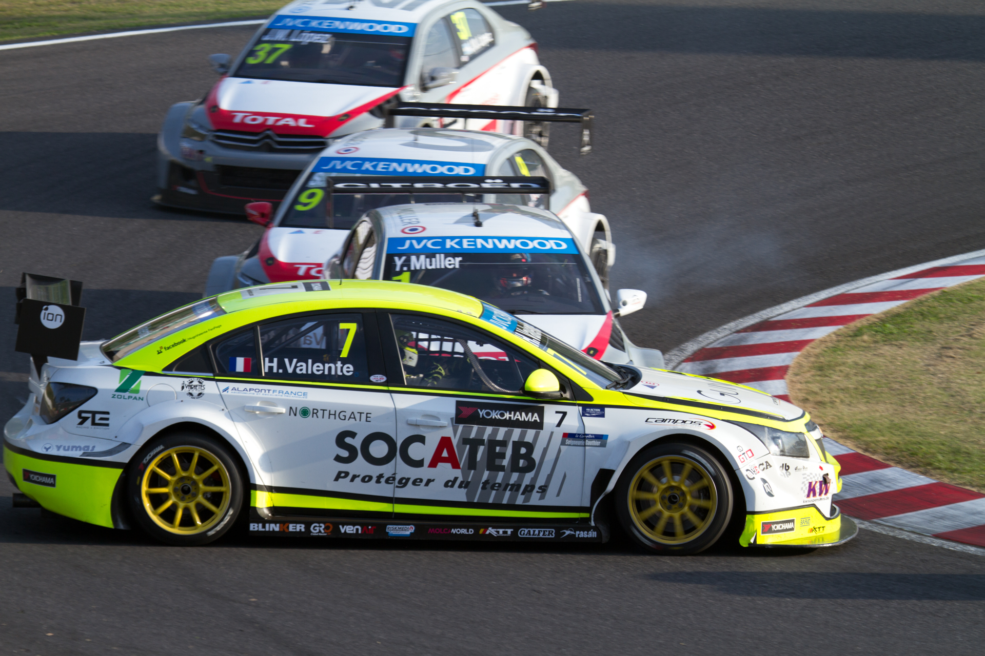 World Touring Car Championship 2014 Race of Japan: Yvan Muller (Citroën) hits Hugo Valente (Campos Racing)